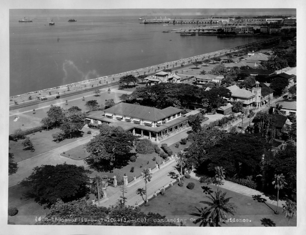 PictionID:38277196 - Catalog:AL-135A 098 Commanding General's Residence Manila 8Sep27 - Filename:AL-135A 098 Commanding General's Residence Manila 8Sep27.tif - This image is from a photo album donated to the Museum by JL Highfill, who was a photographer for the Navy before and during the Second World War-----------PLEASE TAG this image with any information you know about it, so that we can permanently store this data with the original image file in our Digital Asset Management System.-----------------SOURCE INSTITUTION: San Diego Air and Space Museum Archive